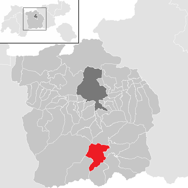 District Innsbruck Land